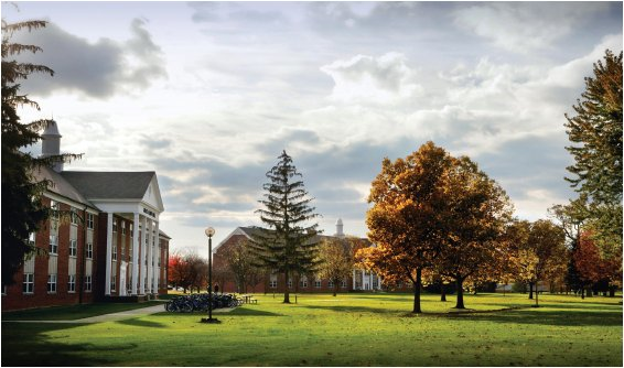 Taylor University